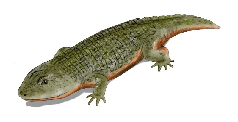 Peltobatrachus pustulatus, a temnospondyli from the Late Permian of Tanganyika, after description by Panchen, 1959, pencil drawing, digital coloring